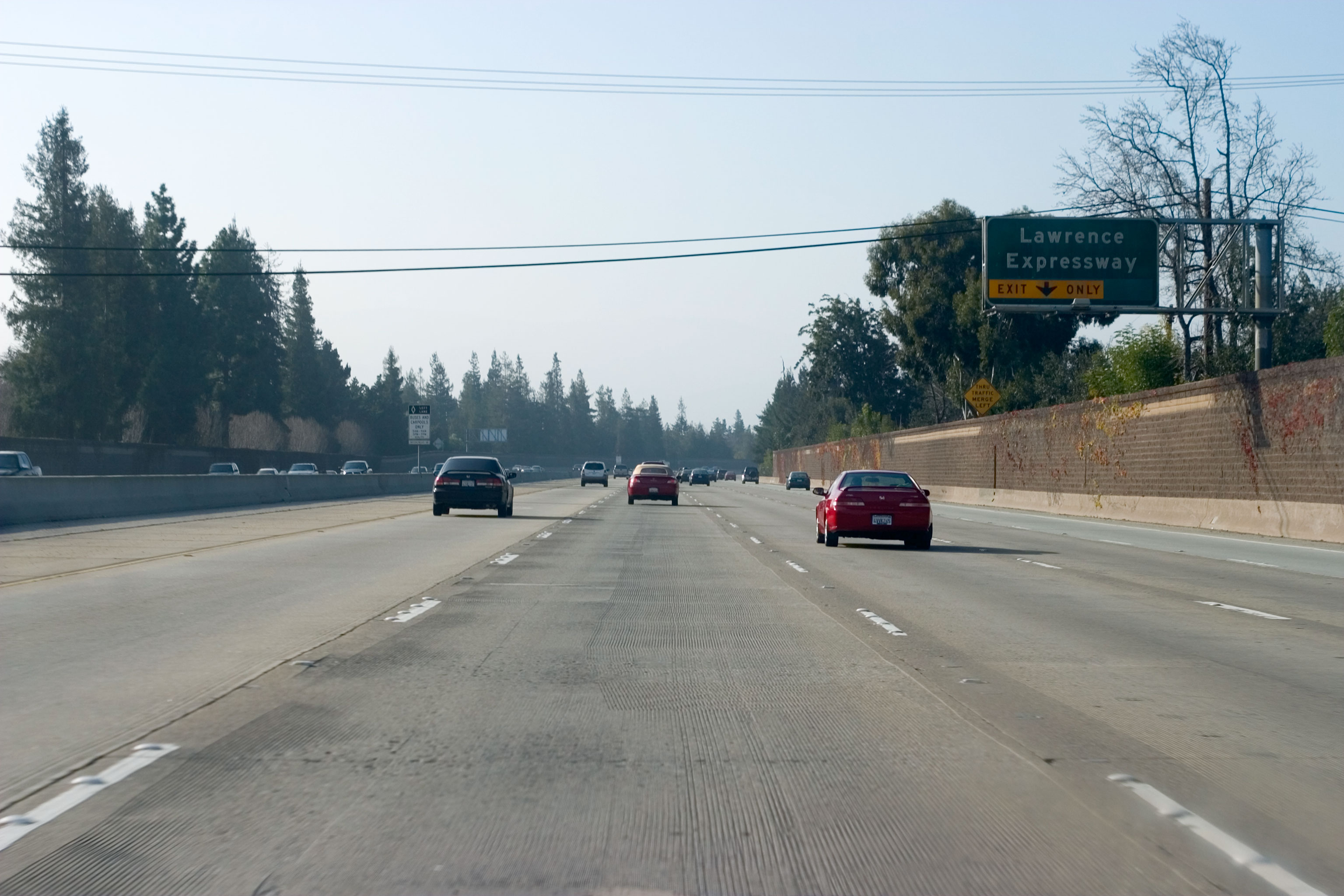 US Highway I-280 in San Jose, CA. Photo by Sean O'Flaherty aka Seano1